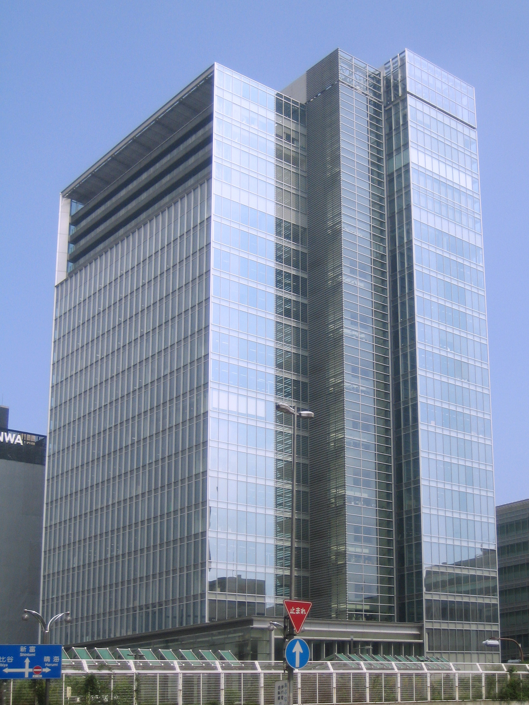 Ginza Shochiku Square. Former the headquater of ASATSU-DK INC. (株式会社アサツー ディ・ケイ) till May 2014, located at Tsukiji, Chuo, Tokyo, Tokyo, Japan